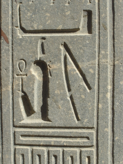 A hieroglyph of the goddess Maat from Luxor, Egypt.